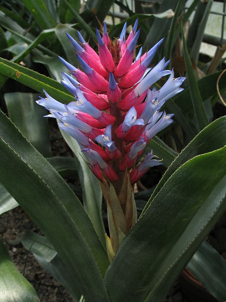 Ronnbergia wuelfinghoffii in cultivation at the Botanical Garden of Heidelberg, Germany.